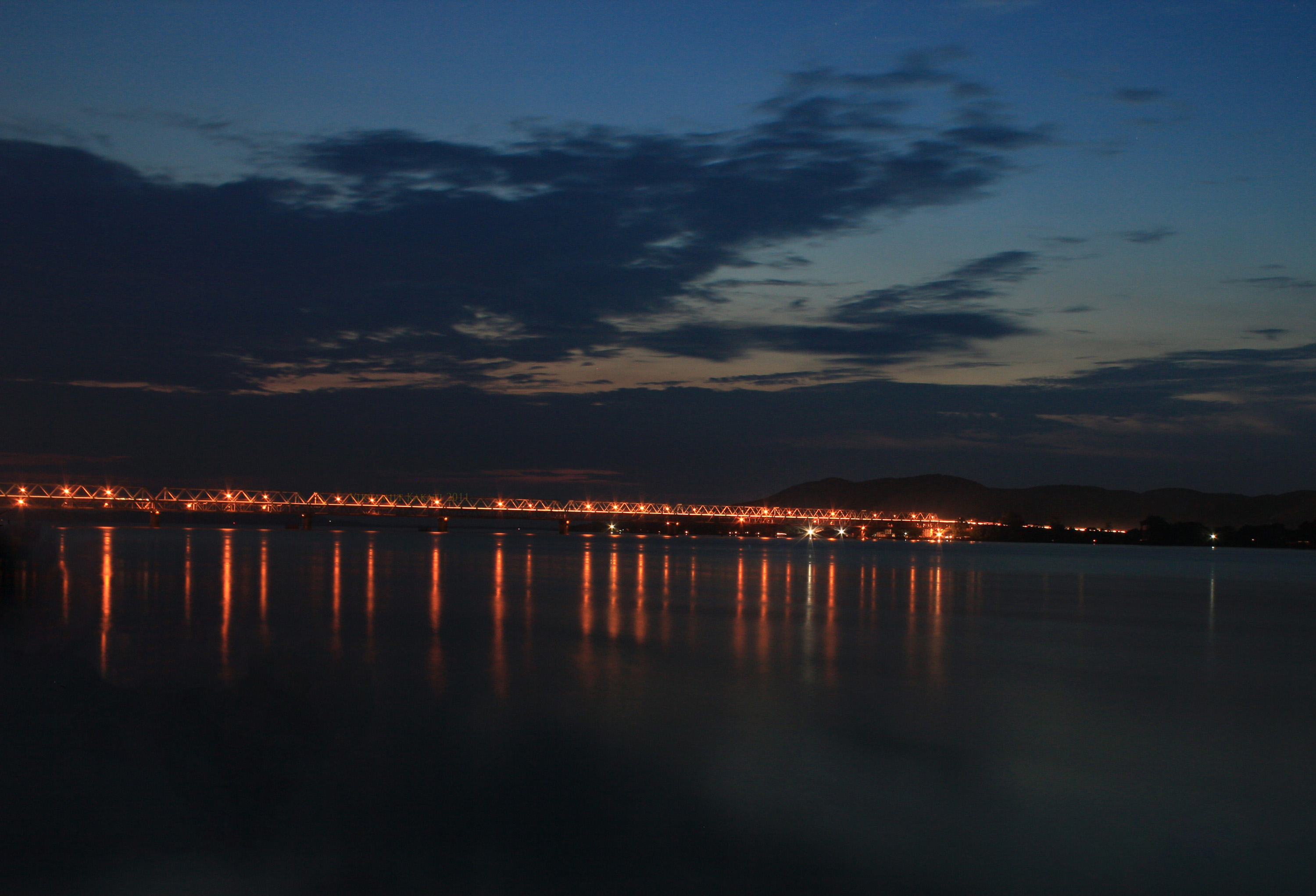 Saraighat Bridge is the first rail-cum-road bridge constructed over the Brahmaputra River in Guwahati. It was opened to traffic in 1962 by the then Prime Minister Jawaharlal Nehru. The Chilarai Park or Lachit Udyan is situated at the end of the bridge.